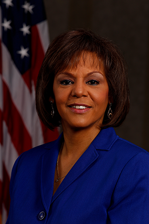 U.S. Representative Robin Kelly